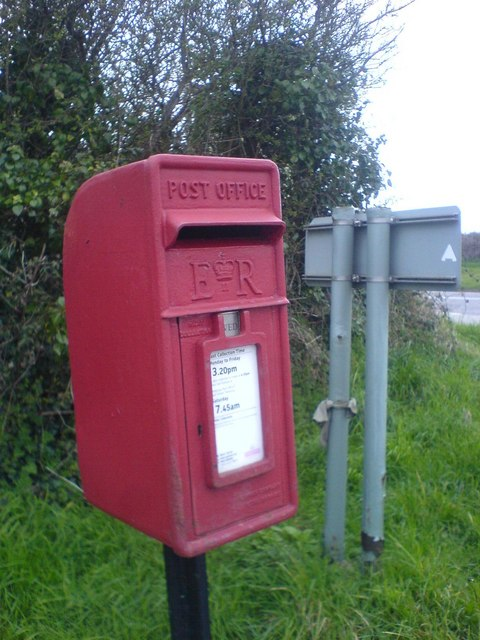 Trebarber Post Box TR8 74 post box